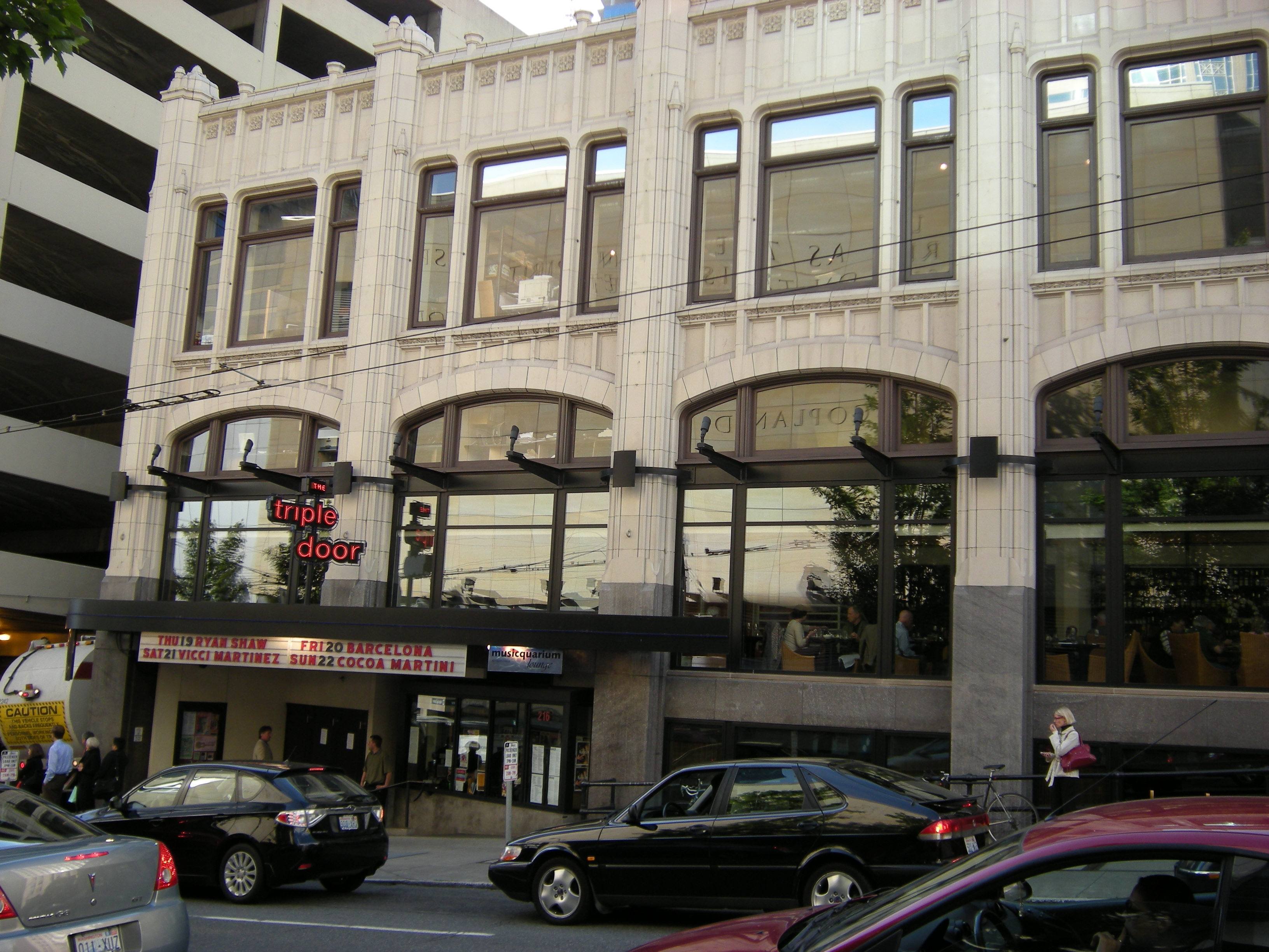 The Triple Door, a bar and music venue in the Mann Building, 1411 3rd Avenue, Seattle, Washington, USA. The building is an official city landmark. The building also includes the Wild Ginger restaurant.